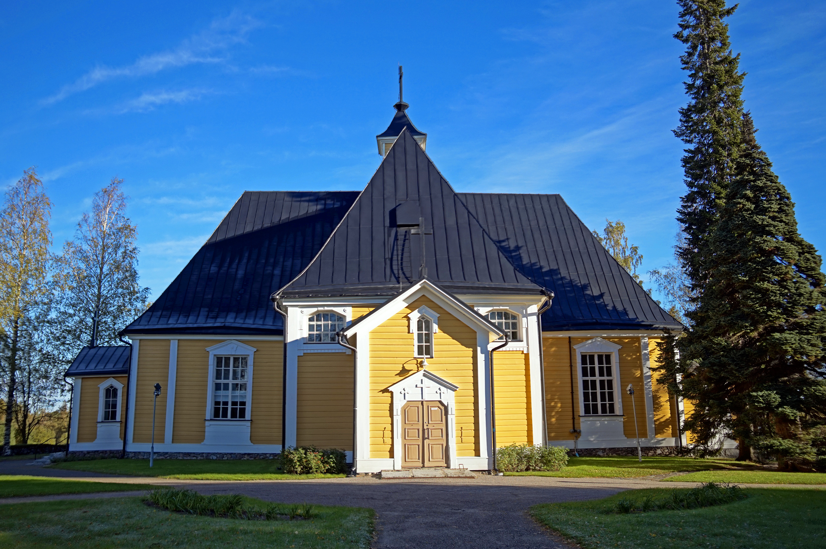 Pieksämäki Old Church, south-west facade, Finland.